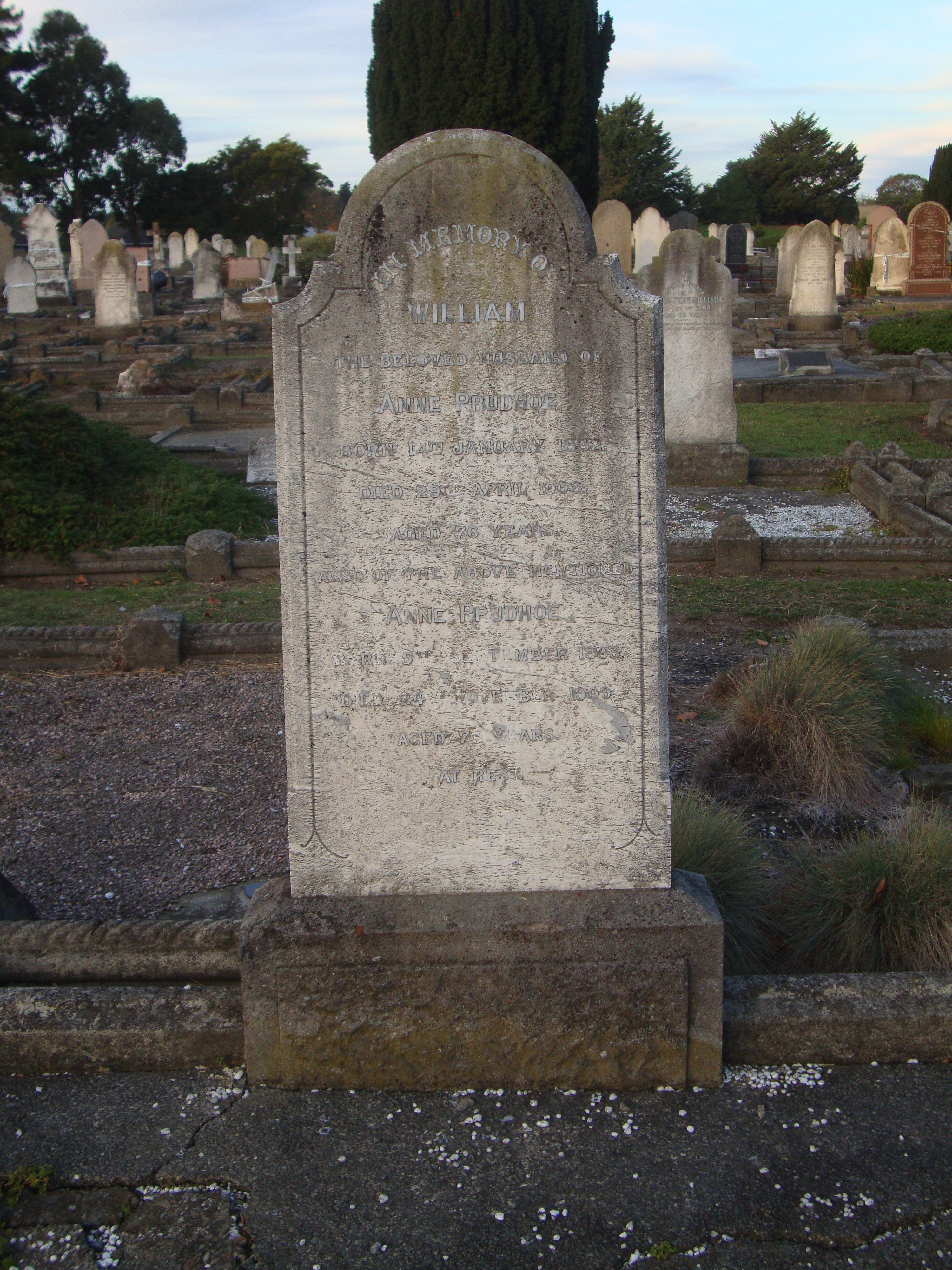 Grave of William Prudhoe.